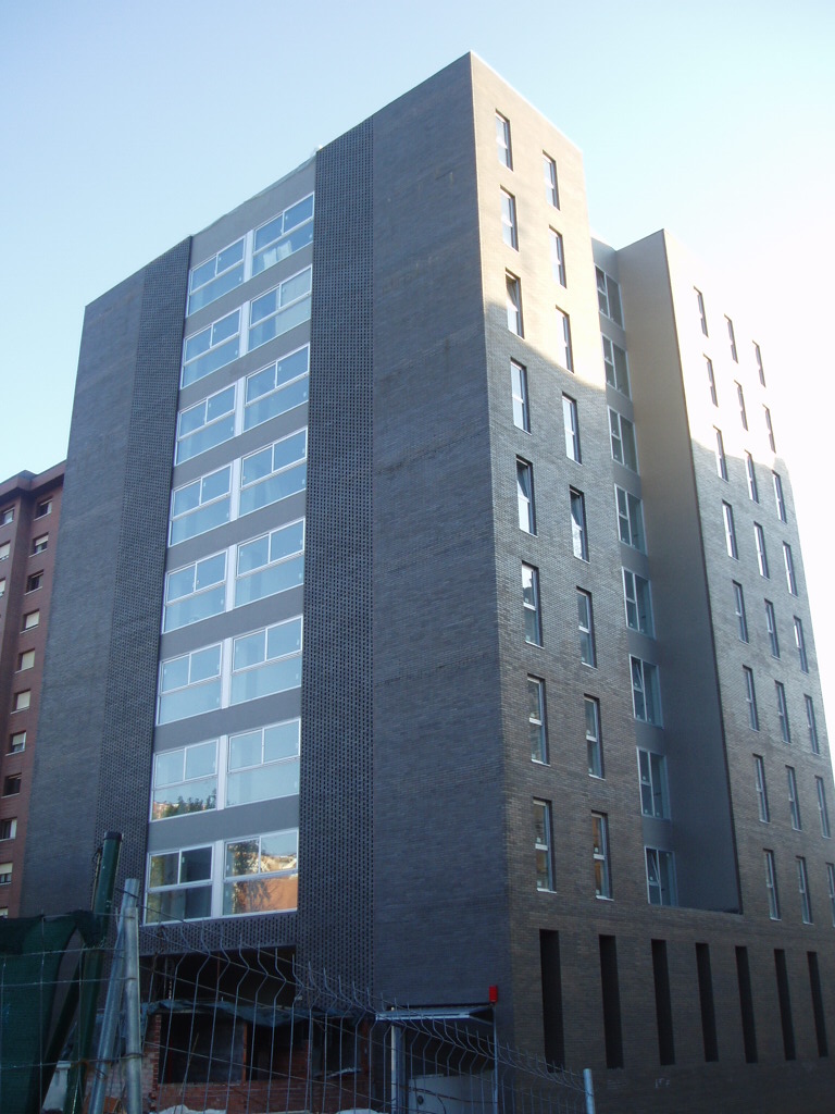 Social housing block designed by Sandra Gorostiza and David Torres, rewarded by COAVN. Txurdinaga district (Bilbao).